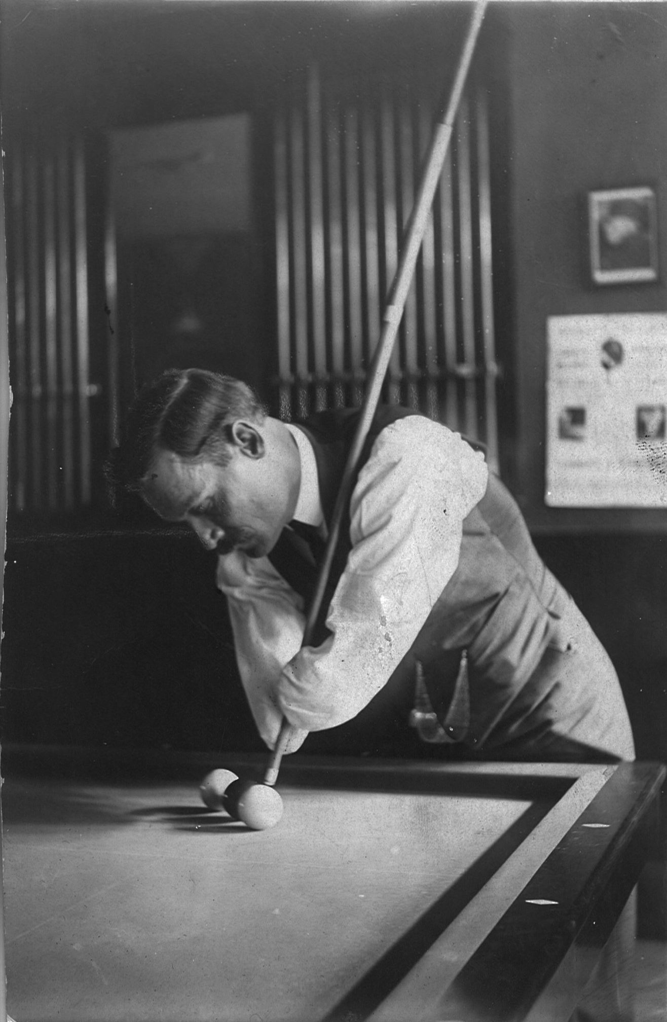 Subject of the photo is my great grandfather George H. Sutton, the "handless player".